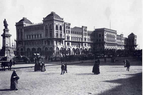 Hotel Internacional of Barcelona, in Barcelona, Catalonia, Spain.